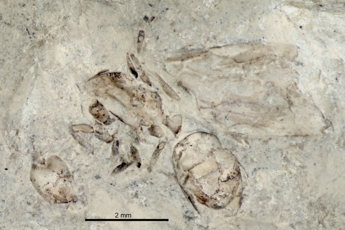 Closeup of Emplastus gurnetensis holotype specimen. Natural History Museum, London specimen BMNHP9755